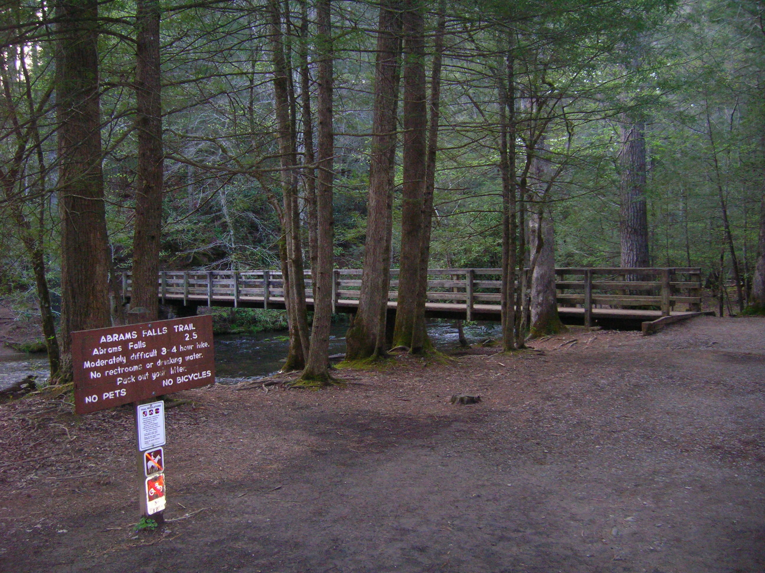 The Abrams Falls Trail leads from Cade's Cove, an old valley homesite, now the most visited area of the Great Smoky Mountains National Park. The trail itself is one of the valley's most frequented destinations up to the waterfall from which it is named. Photo taken by myself, Scott Basford, in April of 2006.